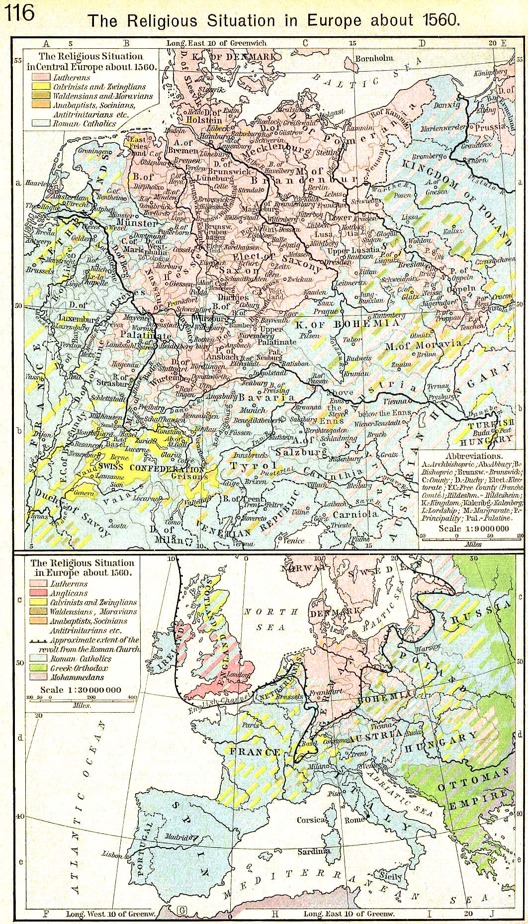 The religious situation in Europe about 1560